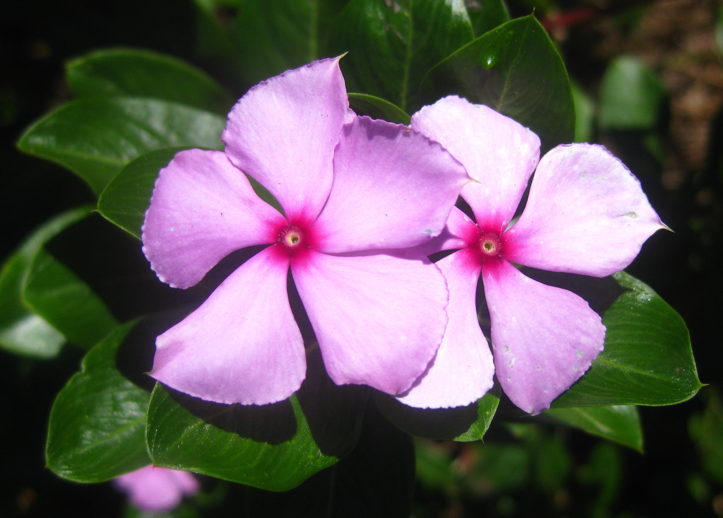 Madagascar periwinkle (Apocynaceae) an important medicinal plant in the combat against certain forms of cancer. Active compounds used in cancer therapy are the alkaloids vincristine and vinblastine and their semisynthetic derivates vincristine and vinorelbine.